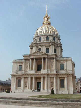 Les Invalides in Paris by Jules Hardouin-Mansart (1676). Photo taken by Daniel Levine on 15 July 2003. Released to public domain.